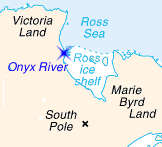 Detail-Map of Antarctica viewing the Position of the Onyx River